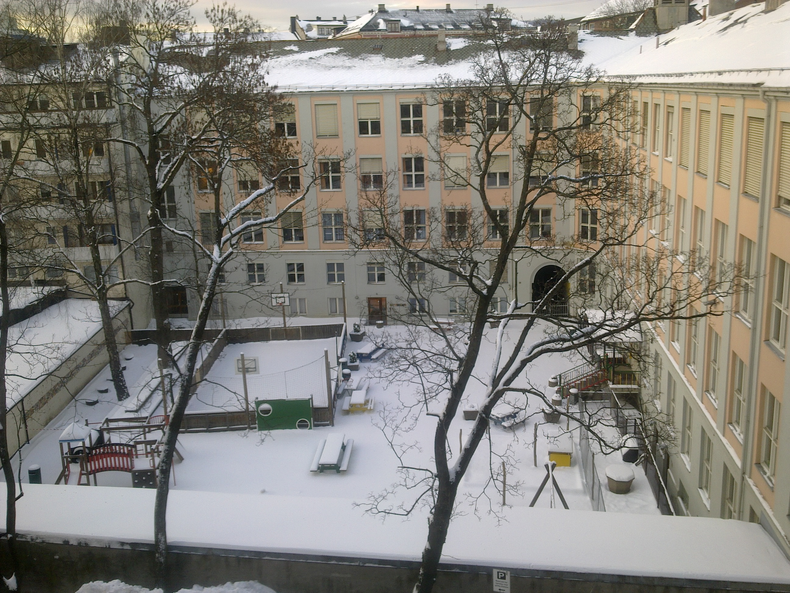 German School of Oslo